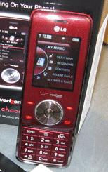 I took the photo myself.